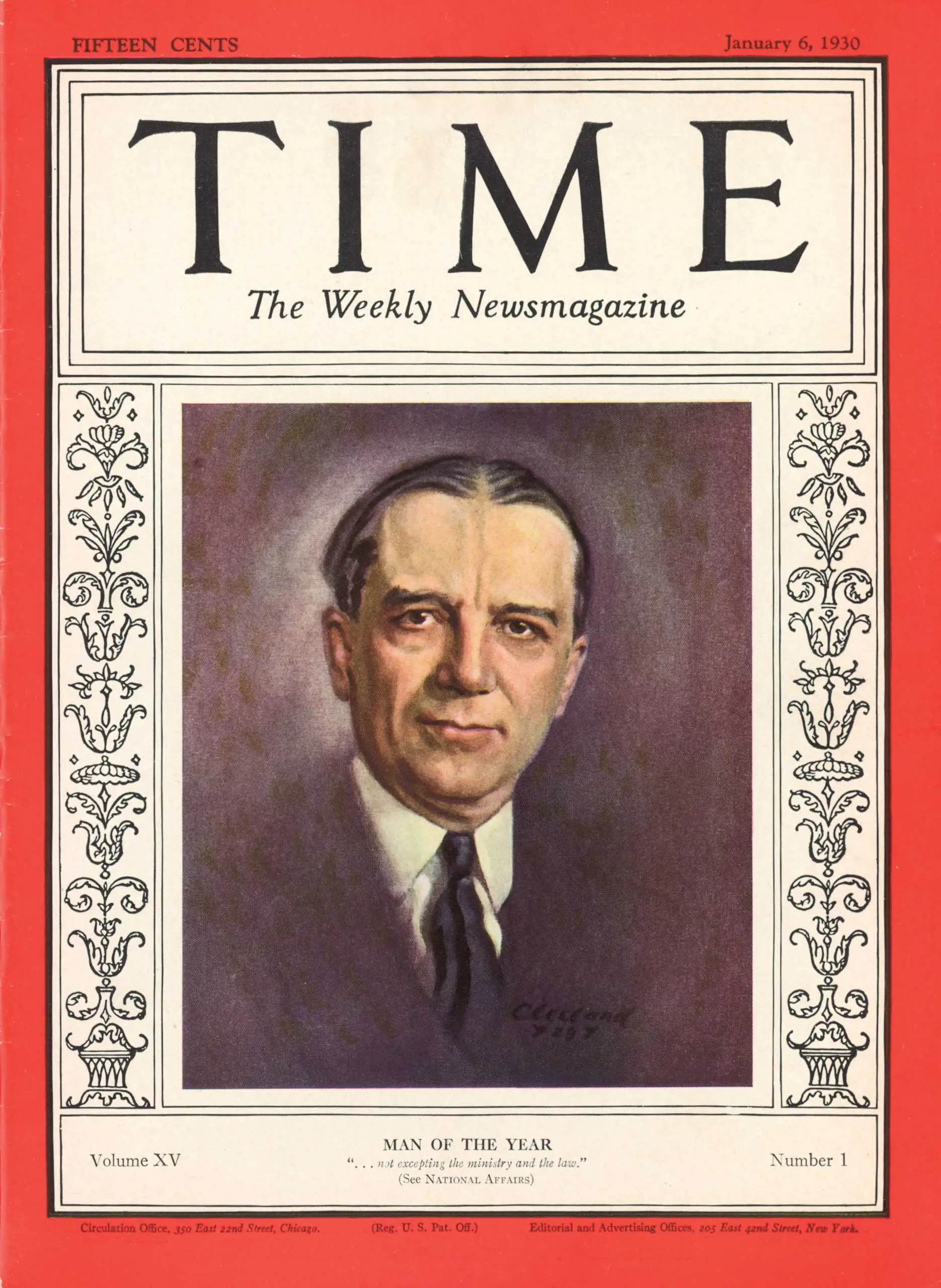 Time Jan 6, 1930 cover showing Owen D. Young